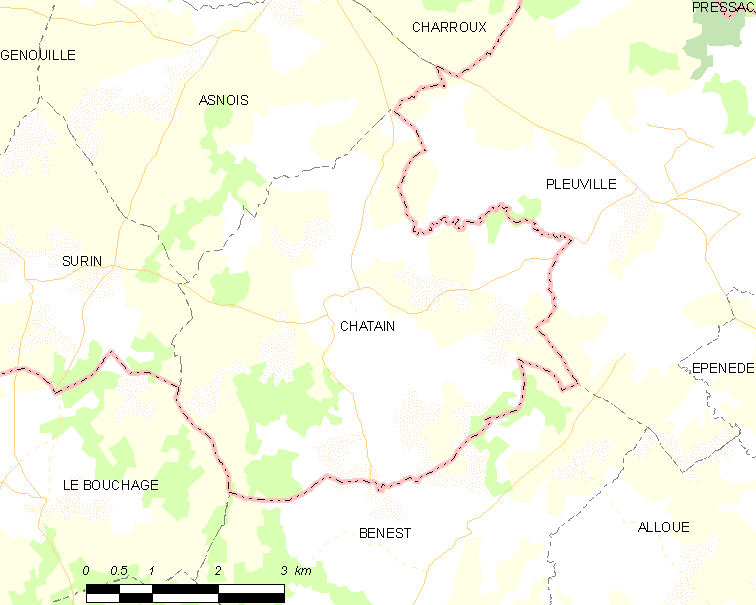 Map of French municipality Chatain